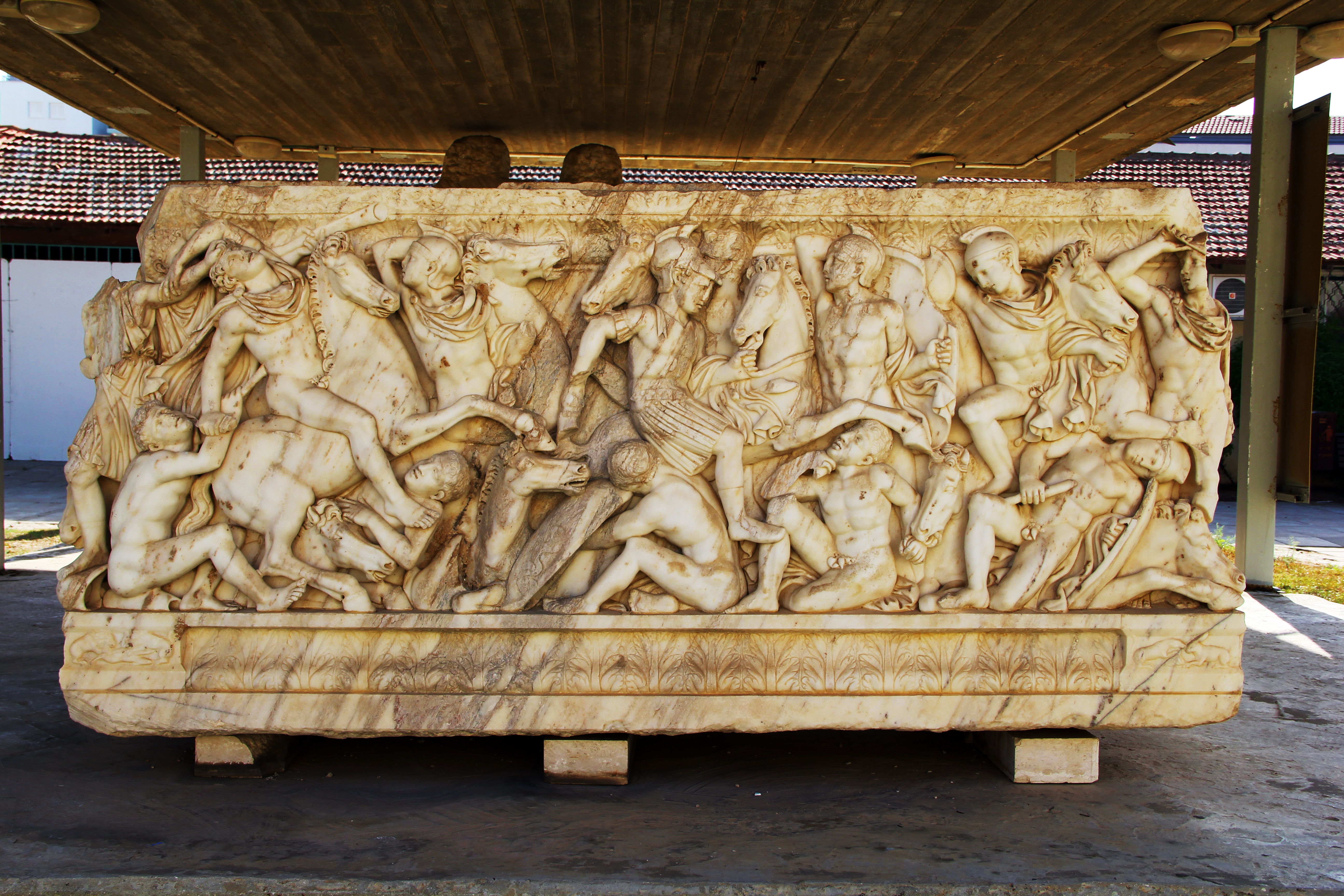 A relief on a sarcophagus, depicting a war scene